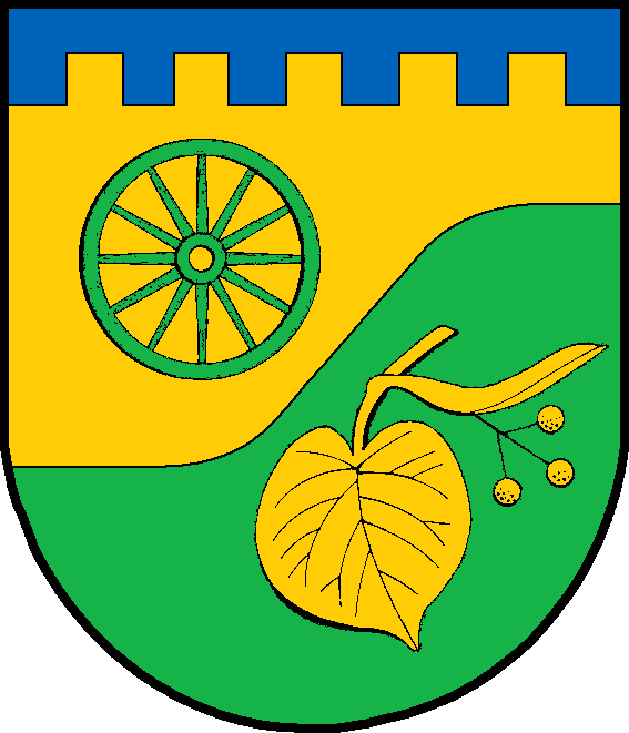 Coat of arms of the municipality Noer in Schleswig-Holstein, Germany.